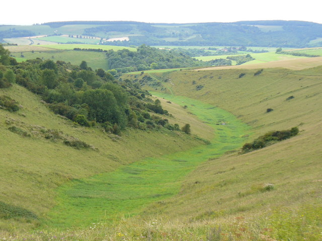 Dry Valley Near Rackham Hill. The chalky South Downs have many dry valleys. The floor of this one is noticeably greener than its hillsides.